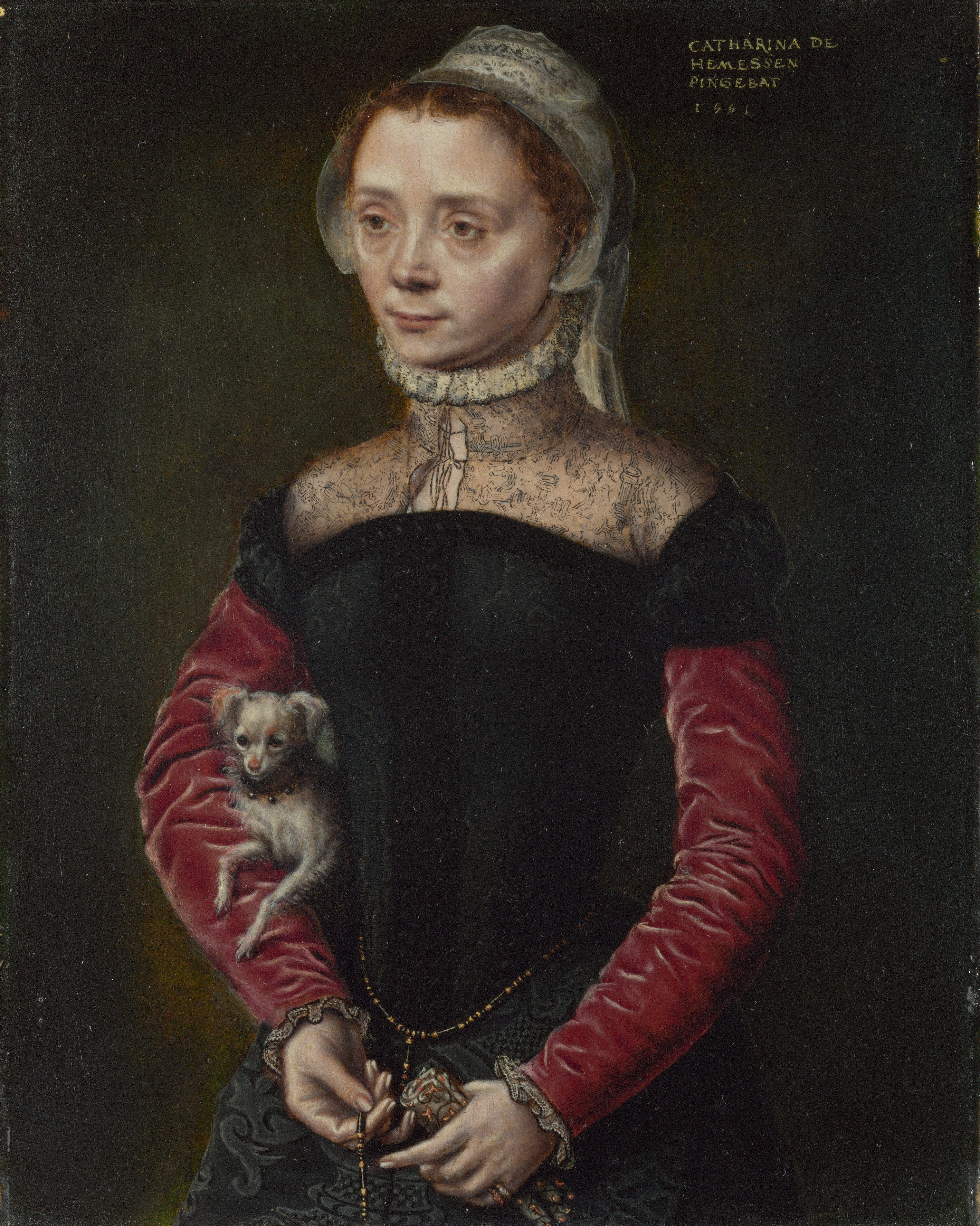 Portrait of a Woman with Dog